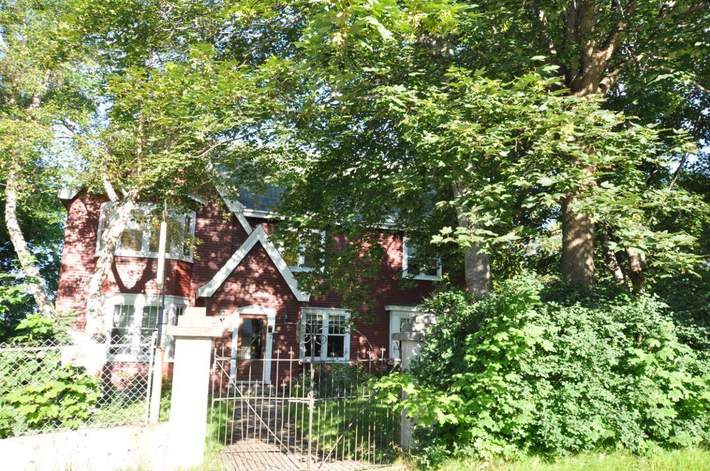 Pinehurst, Carbonear, Newfoundland.